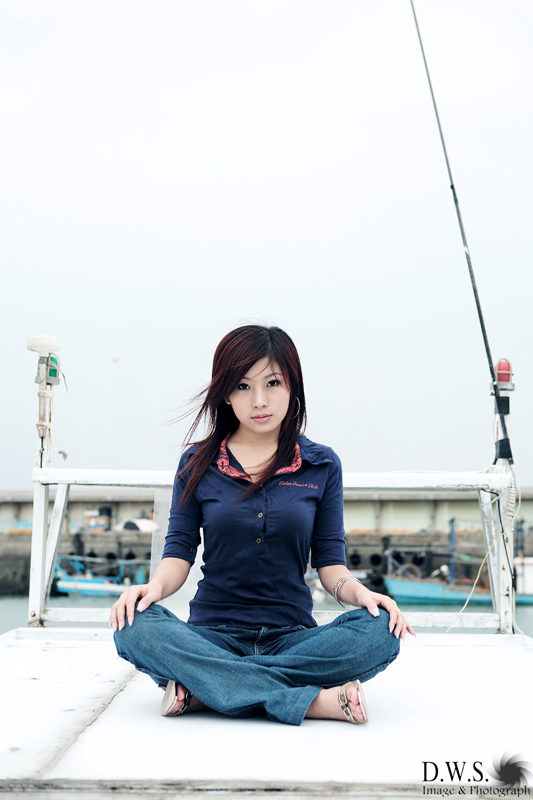 A woman sitting cross-legged on the floor.